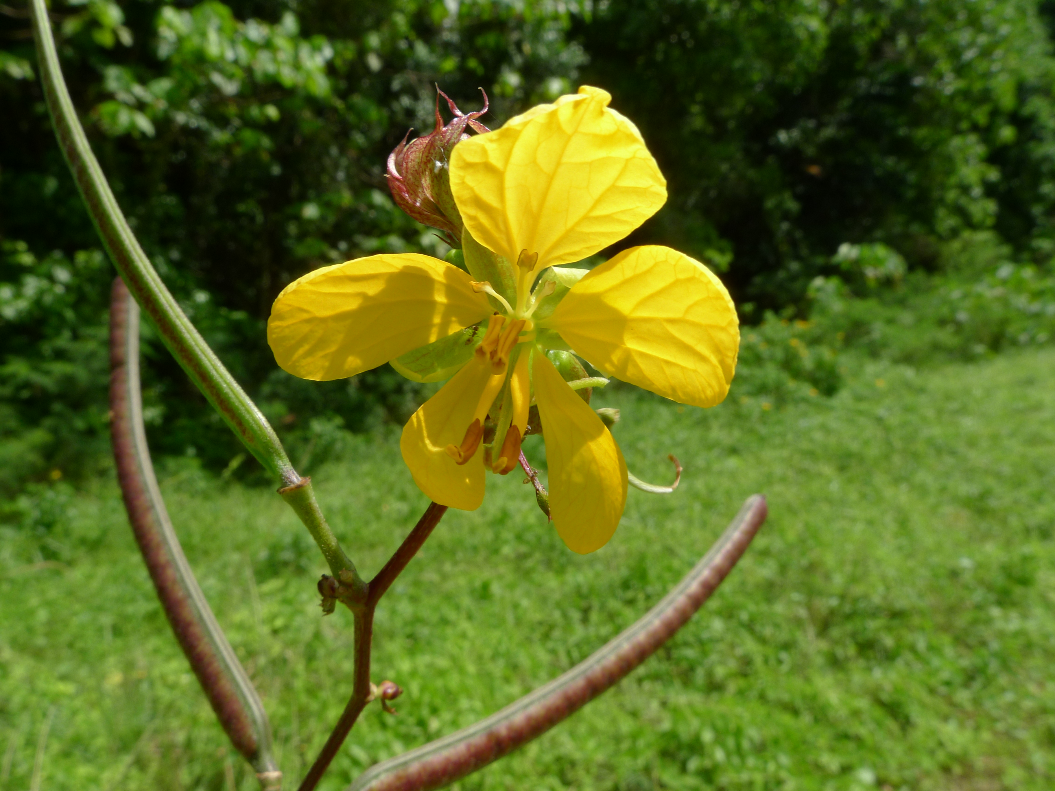 Yellow flower of Coffee Senna, Senna occidentalis. A weed of wastelands and roadsides. Christmas Island, Australia, April 2011.